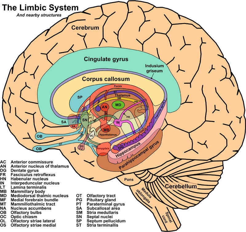 Cutout anatomy diagram of the human limbic system and some nearby structures.